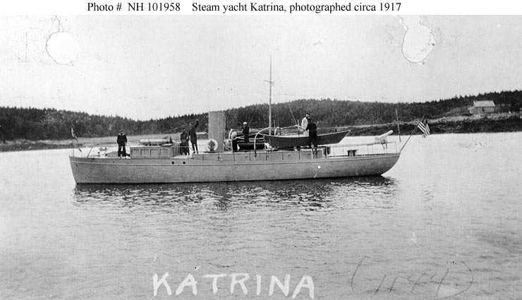 The private steam yacht Katrina just prior to her service as the United States Navy patrol vessel . She already been painted gray for Navy service but still flies the civilian yacht ensign.